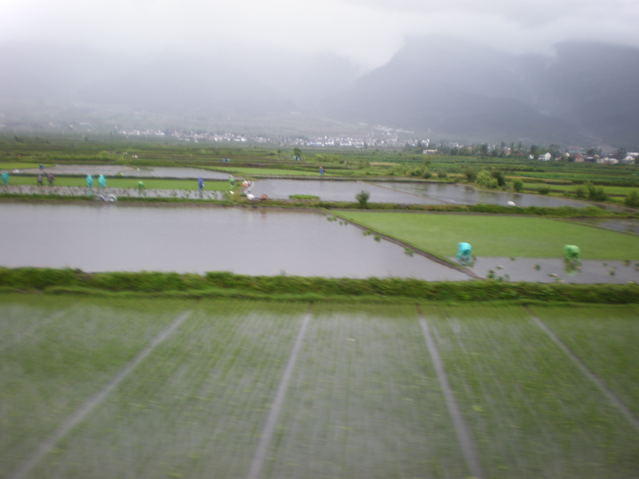 Paddy fields in Yunnan seen while traveling from Shangri-La (formerly Zhongdian) to Dali. Exact area unknown.